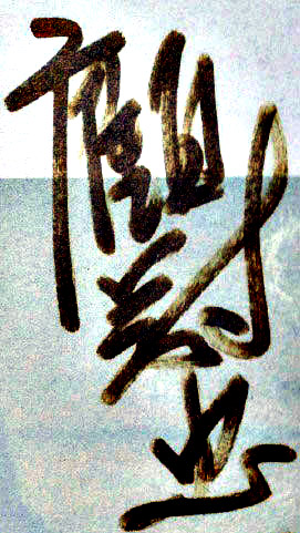 This is Eddie Koo's signature.